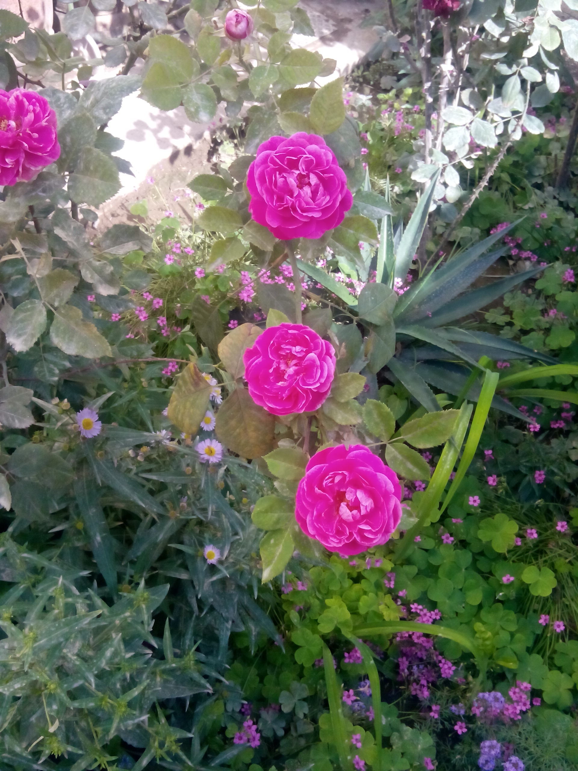 Red Flower's in Baghdad